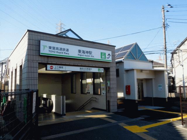 Toyo Rapid Railway Higashi-Kaijin Station T4 Exit